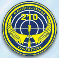 Insignia of the 210th Aviation Firing Ground, Belarus